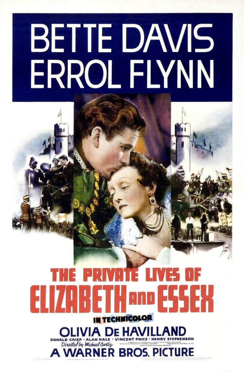 ' (1939) movie poster.